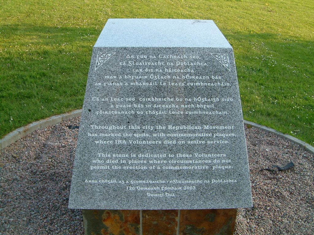 Taken by myself in Derry in 2005.